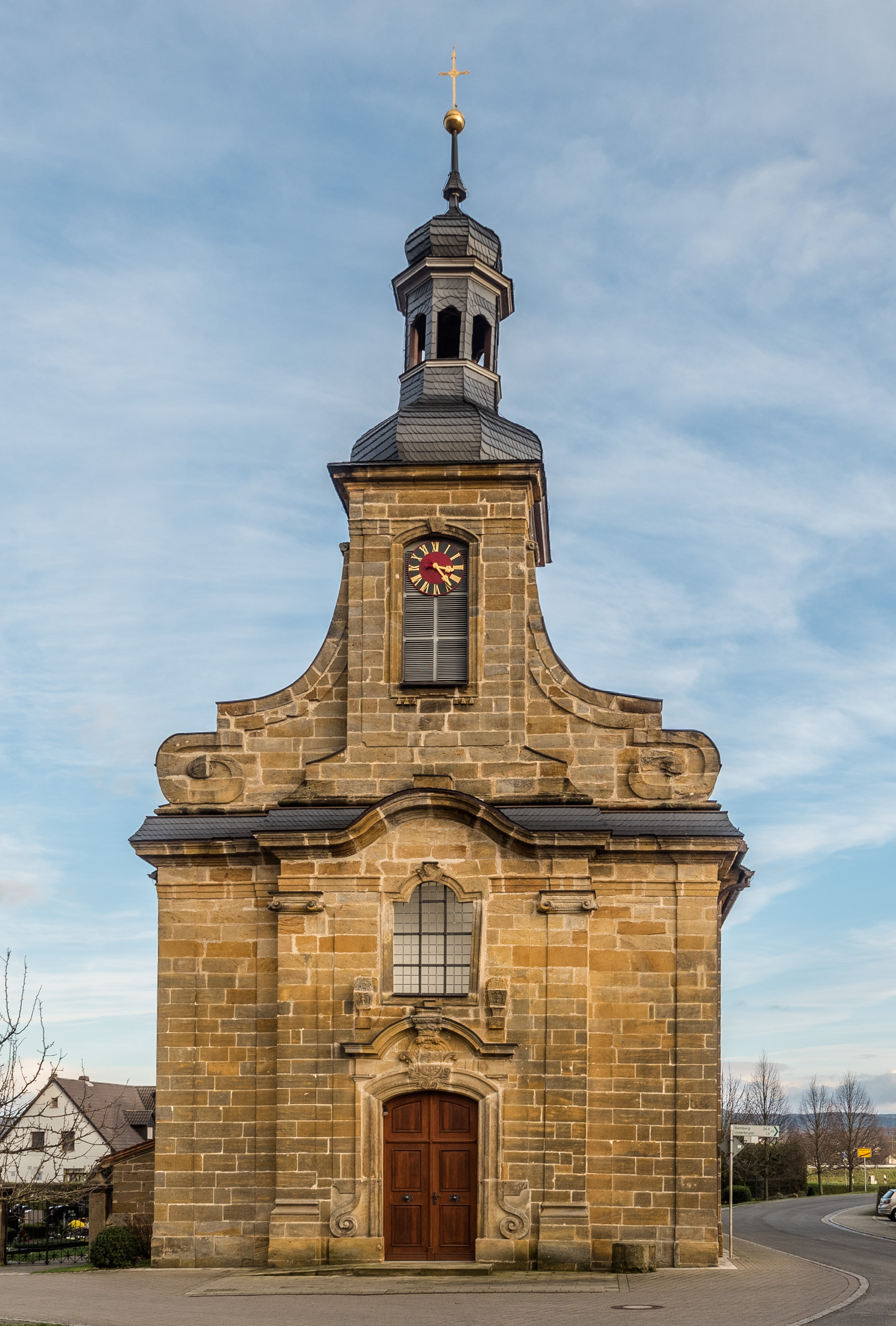 St.Laurentius Kirche in Oberbrunn